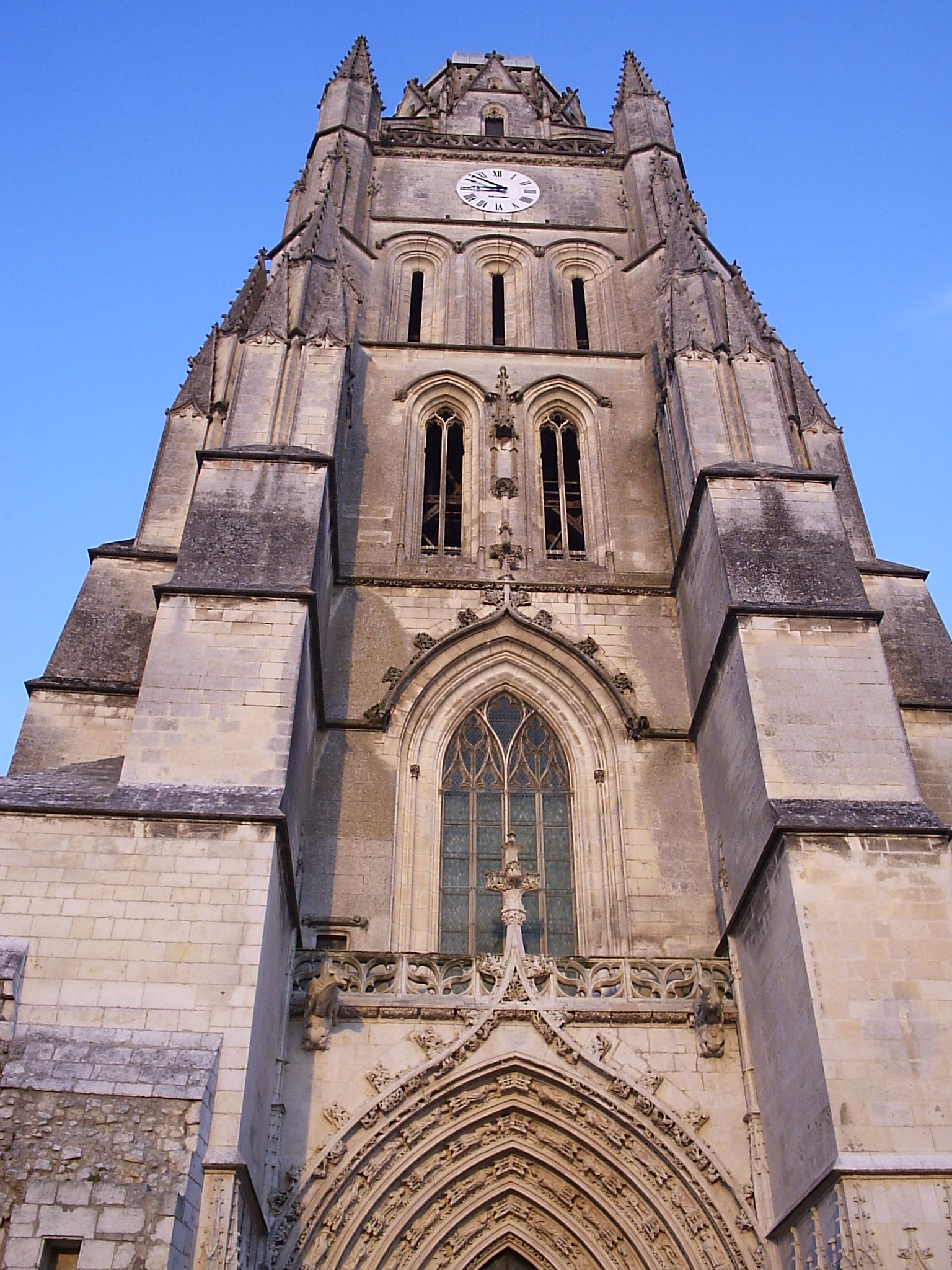 Author:Sebb Date:07/2006